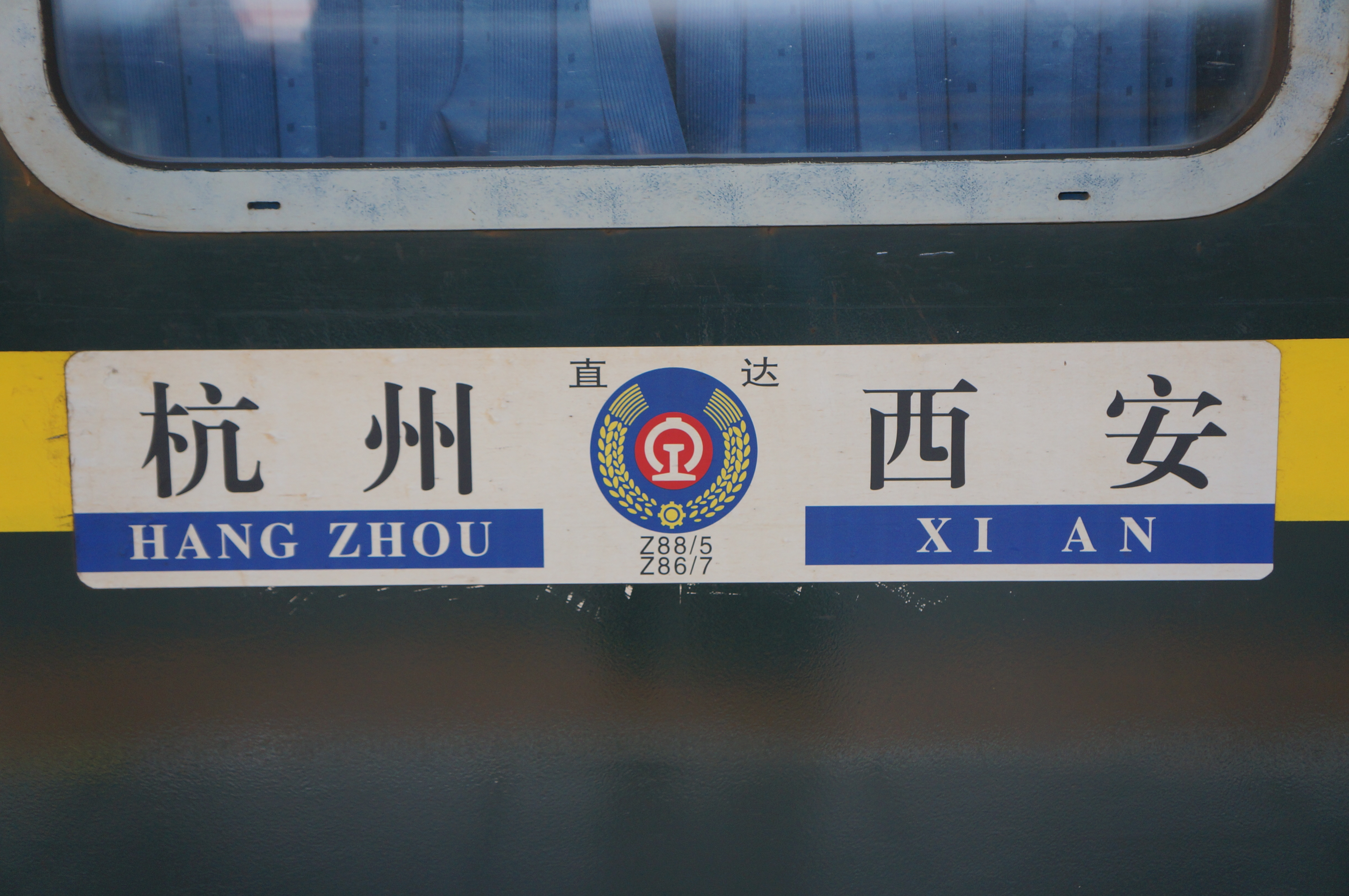 Taken at Hangzhou Station